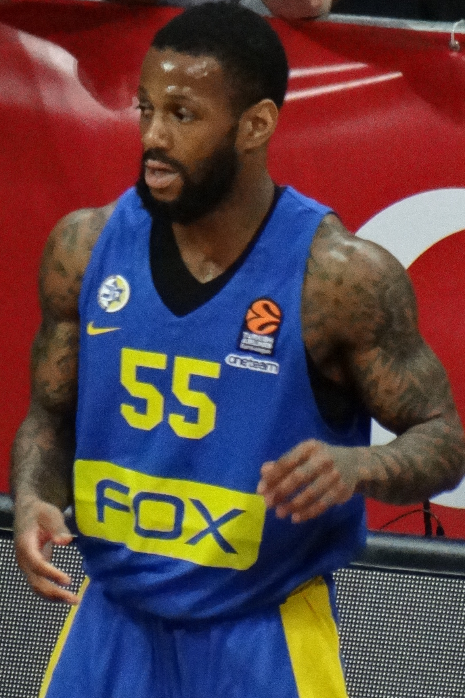 Pierre Jackson 55 Maccabi Tel Aviv B.C. EuroLeague 20180320